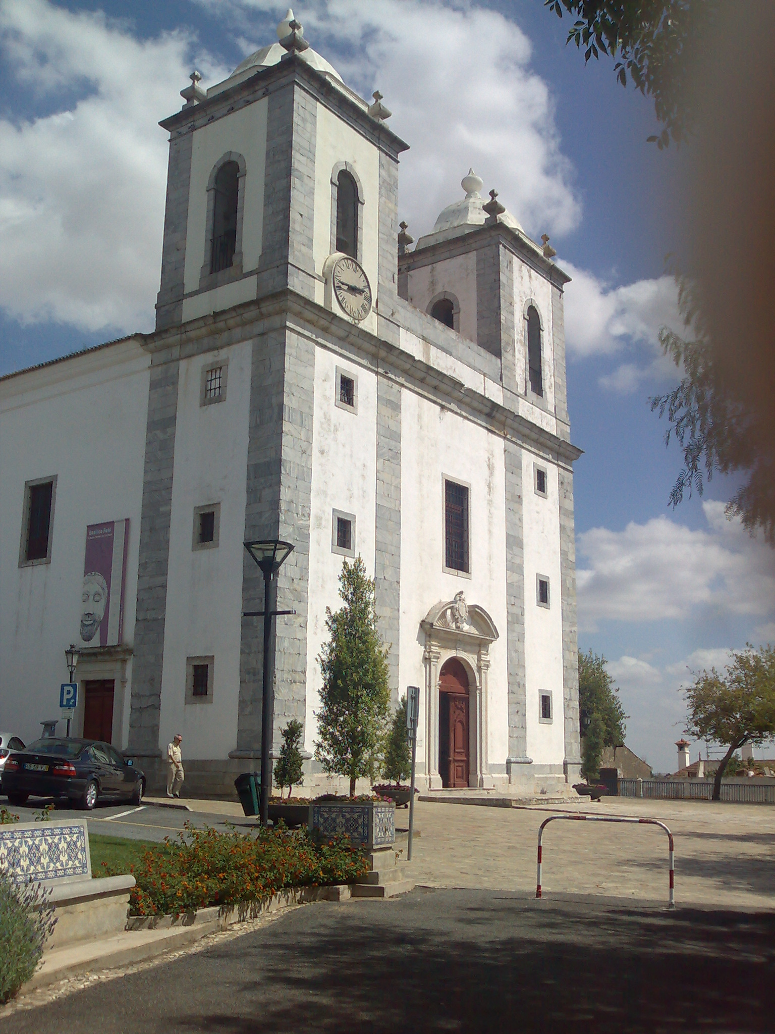 Royal Basilica of Castro Verde, Portugal